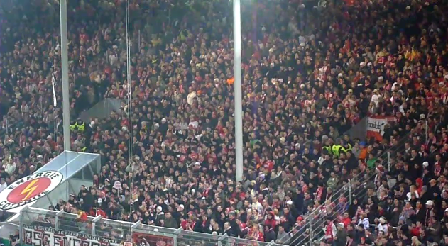 "Stadion der Freundschaft" FC Energie Cottbus Fans vs. TSG 1899 Hoffenheim DFB Pokal quarter final 2011